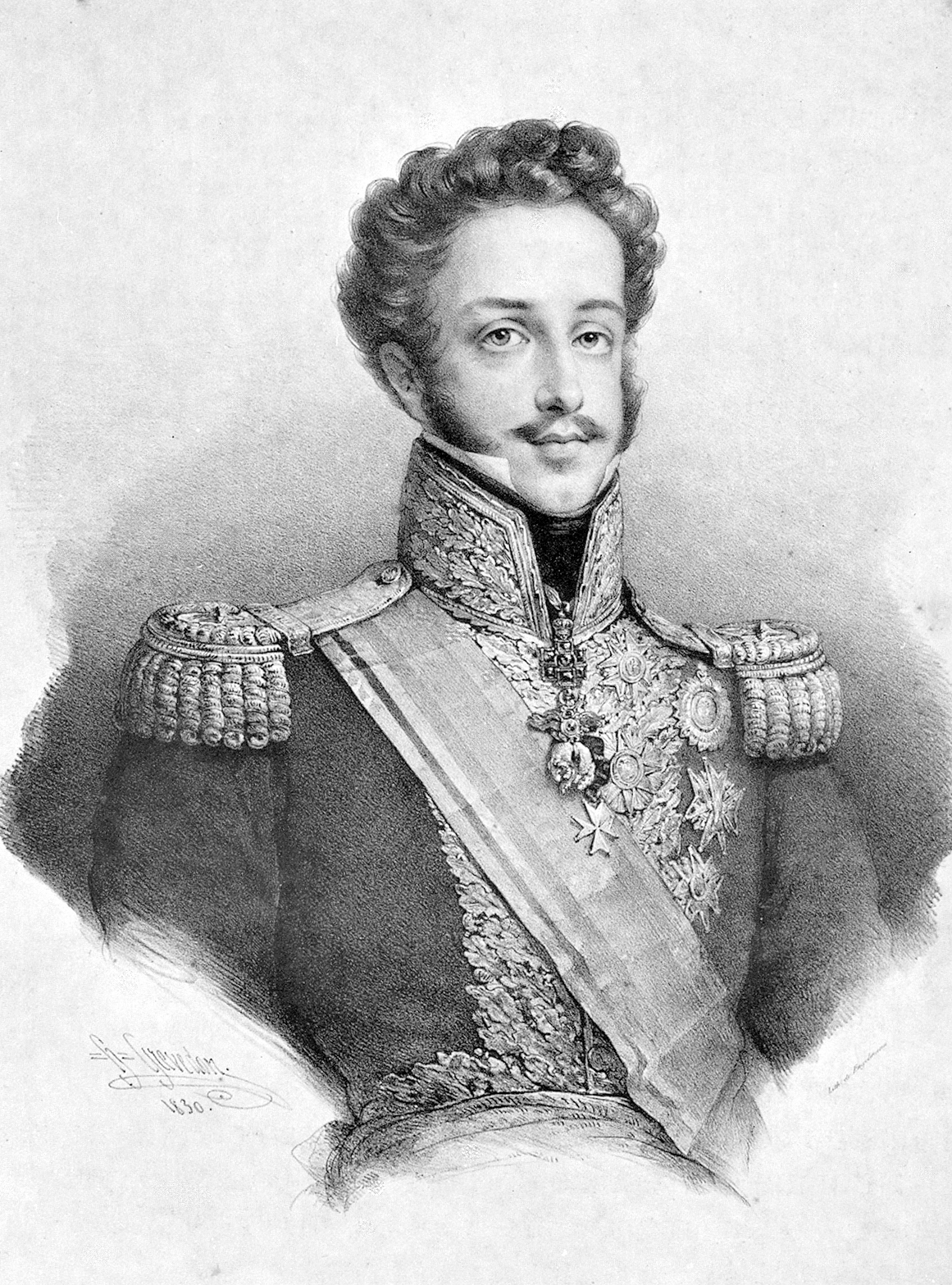 A lithography of Emperor Dom Pedro I at age 32, 1830.